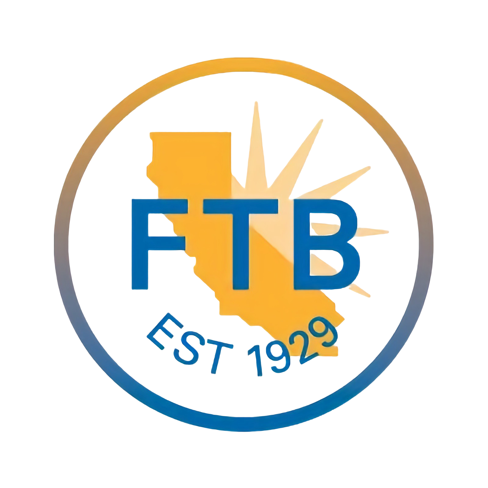 Logo of the California Franchise Tax Board